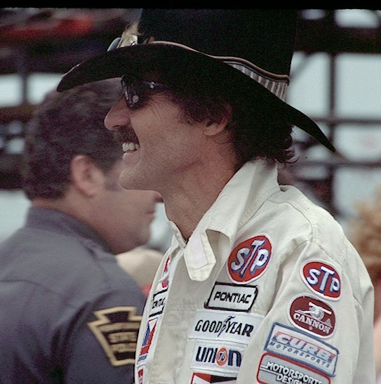 NASCAR champion Richard Petty at Pocono in 1985. Photo taken by Ted Van Pelt.